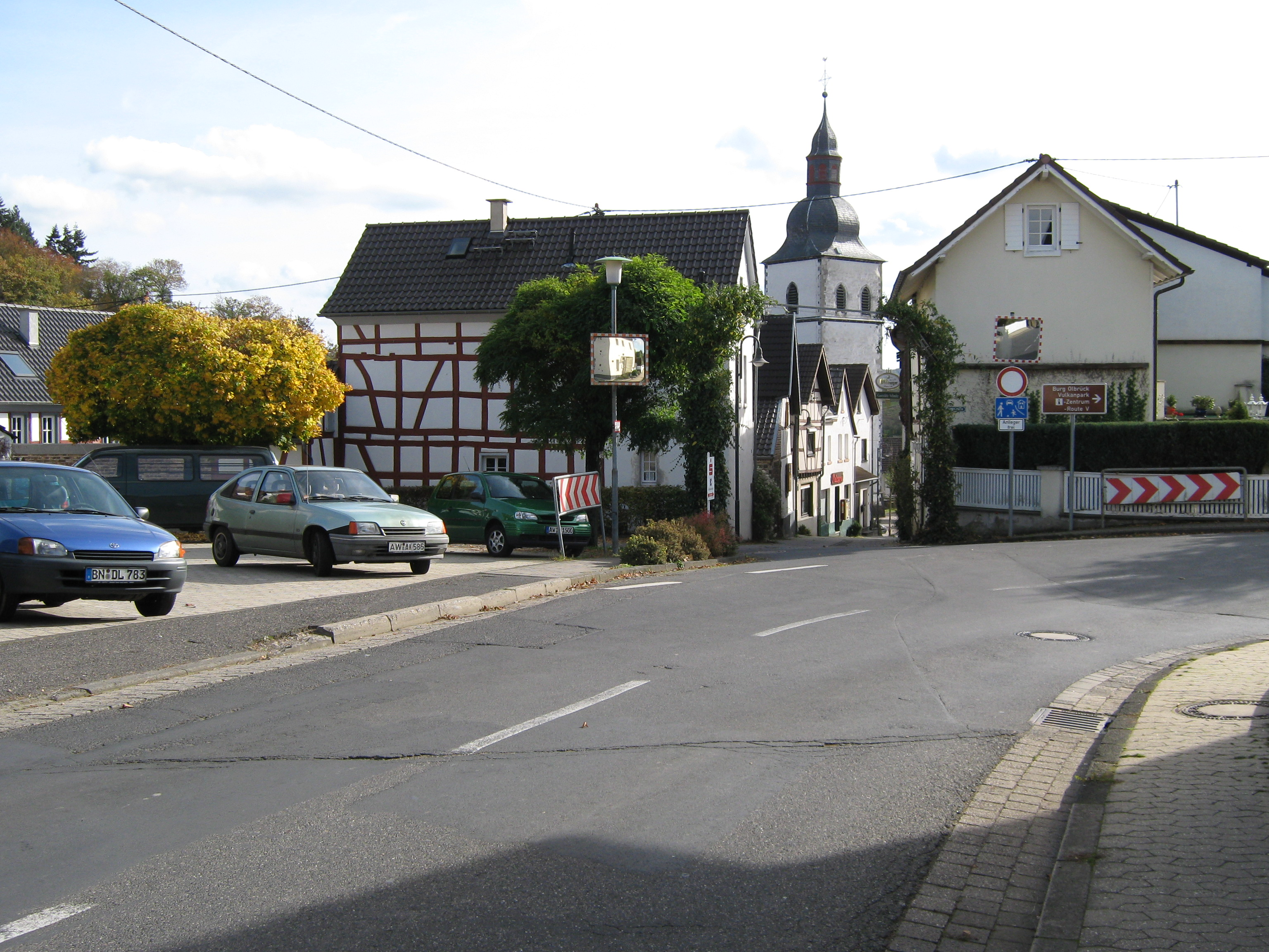 Königsfeld, a village in the Eifel landscape, Germany